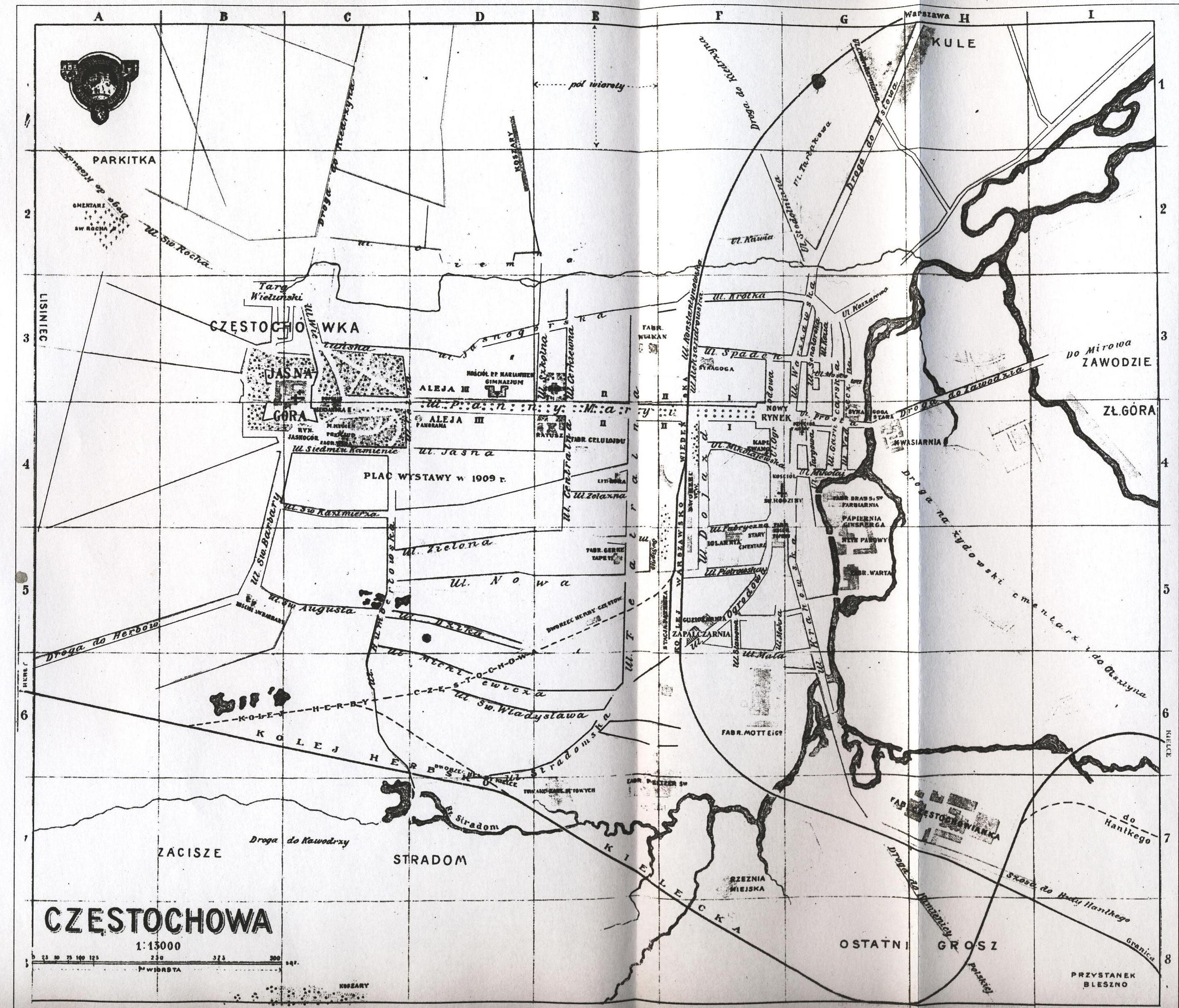 The map of Częstochowa, Poland (1913).